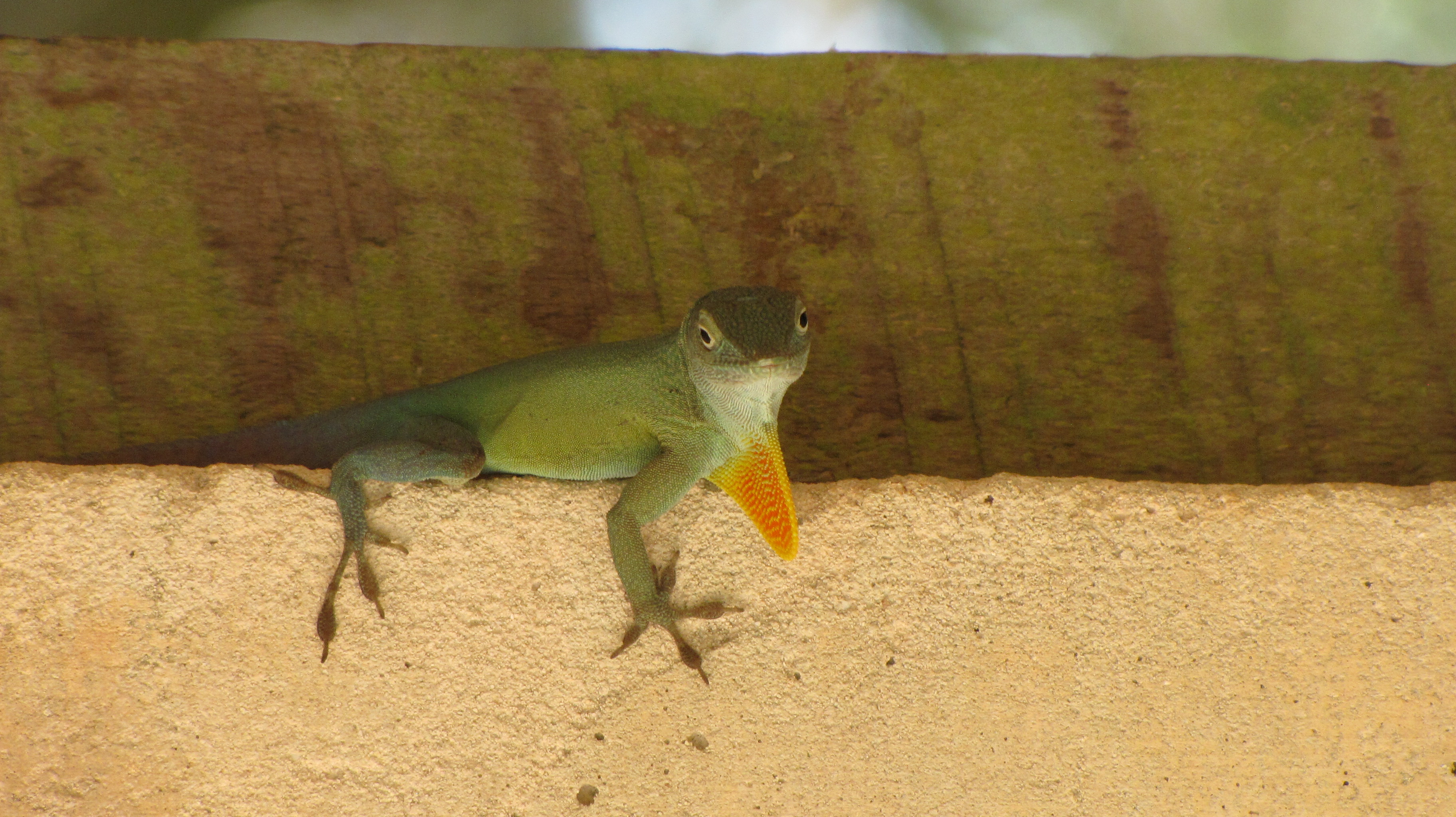 Jamaican anole lizard in the Botanical Gardens, Paget Parish, Bermuda